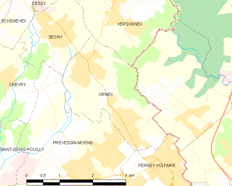 Map of French commune: Ornex Map commune FR insee code 01281.png